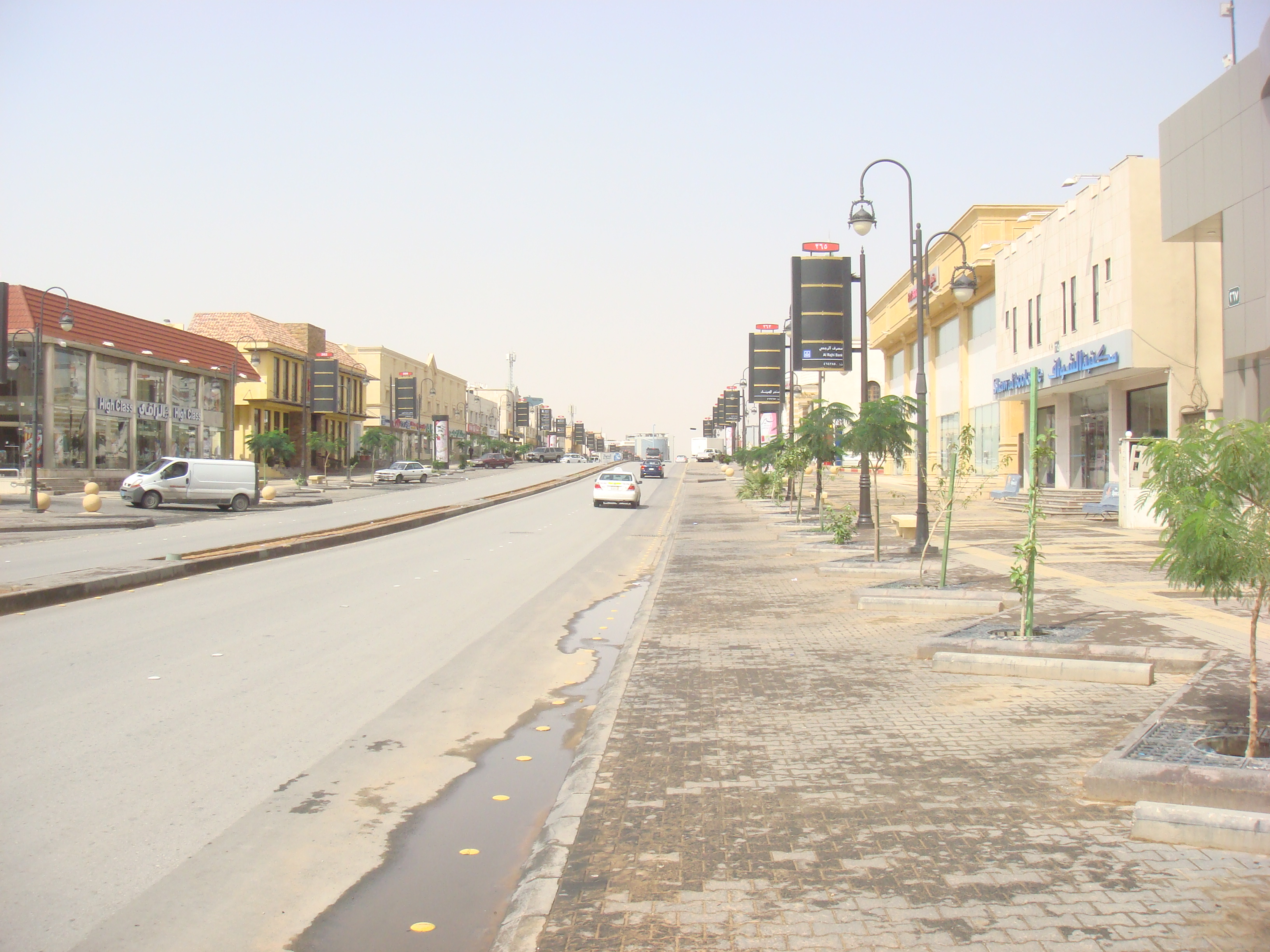 Prince Sultan Road Riyadh, Saudi Arabia